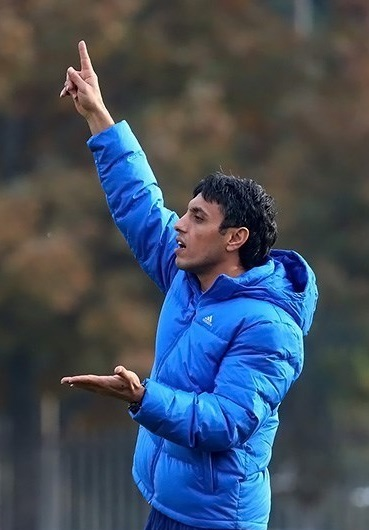 Rasoul Khatibi, head coach of Gostaresh during a friendly match with Iran U23